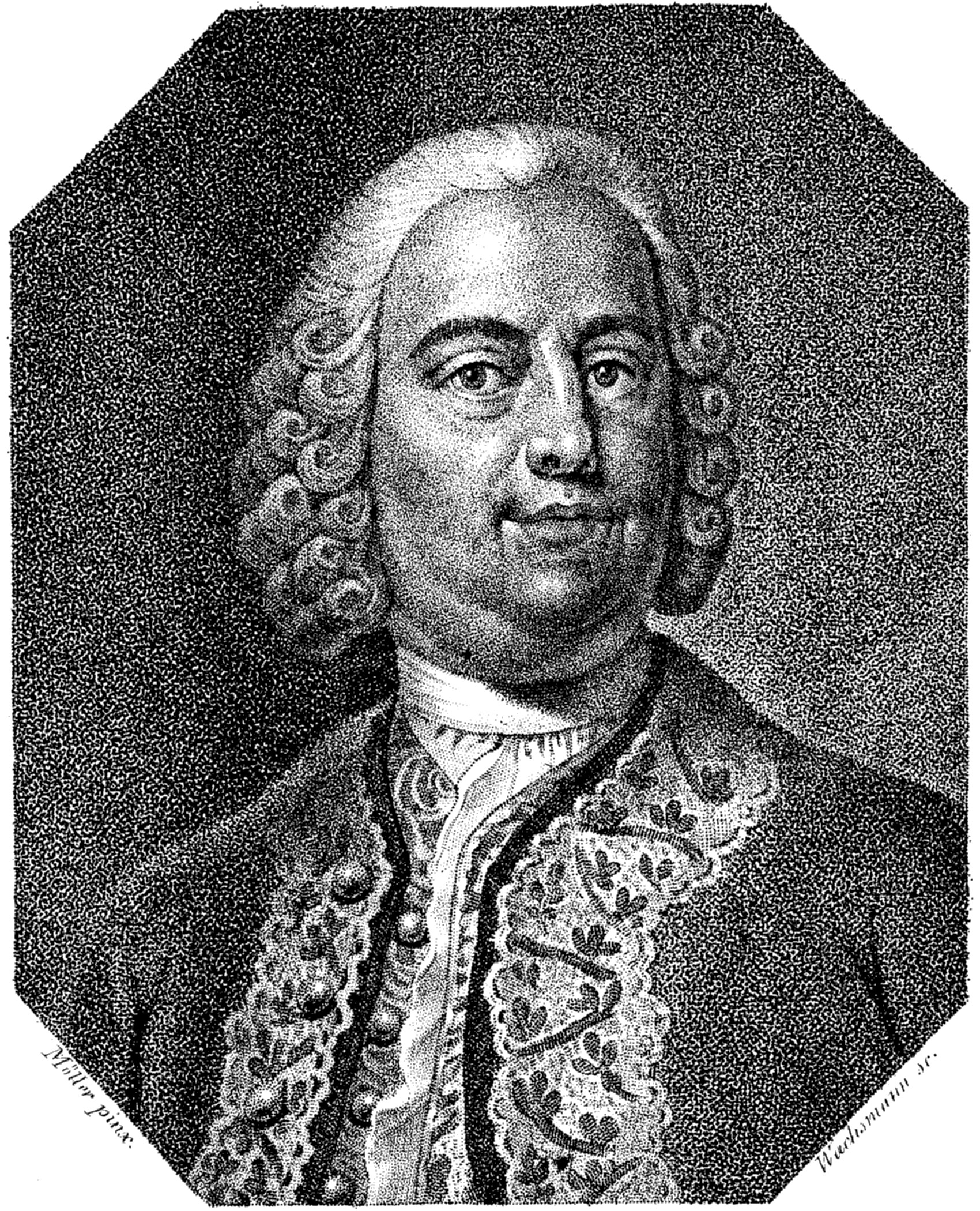 Depicted person: Carl Heinrich Graun